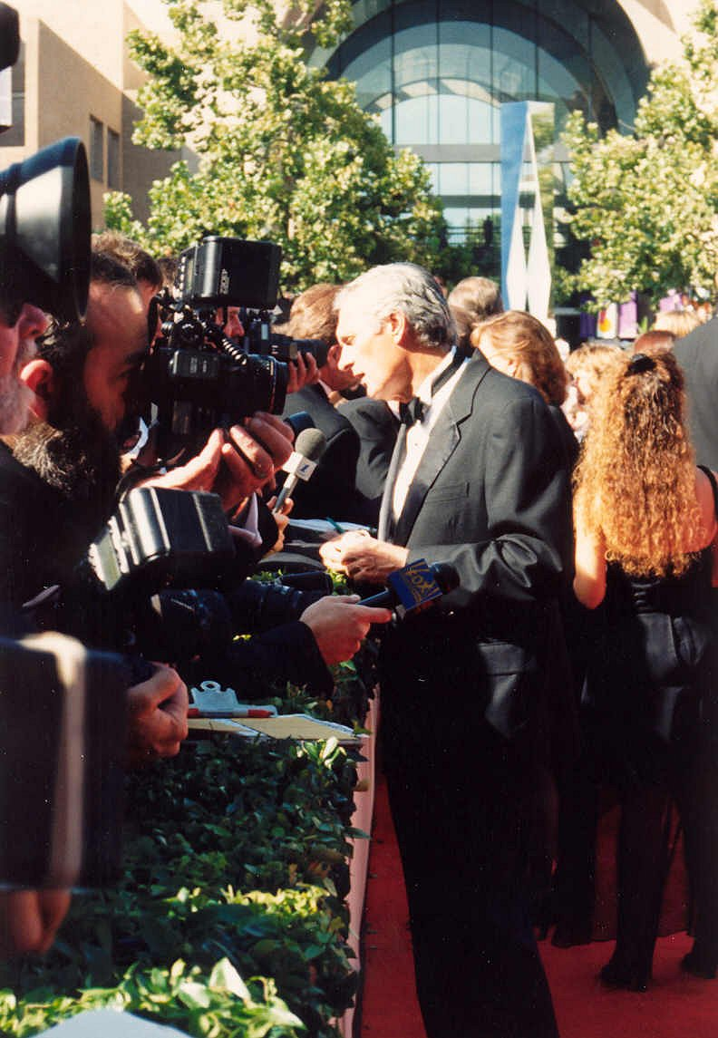 Alan Alda on the red carpet at the Emmys 9/11/94 - Permission granted to copy, publish, broadcast or post but please credit "photo by Alan Light" if you can3836